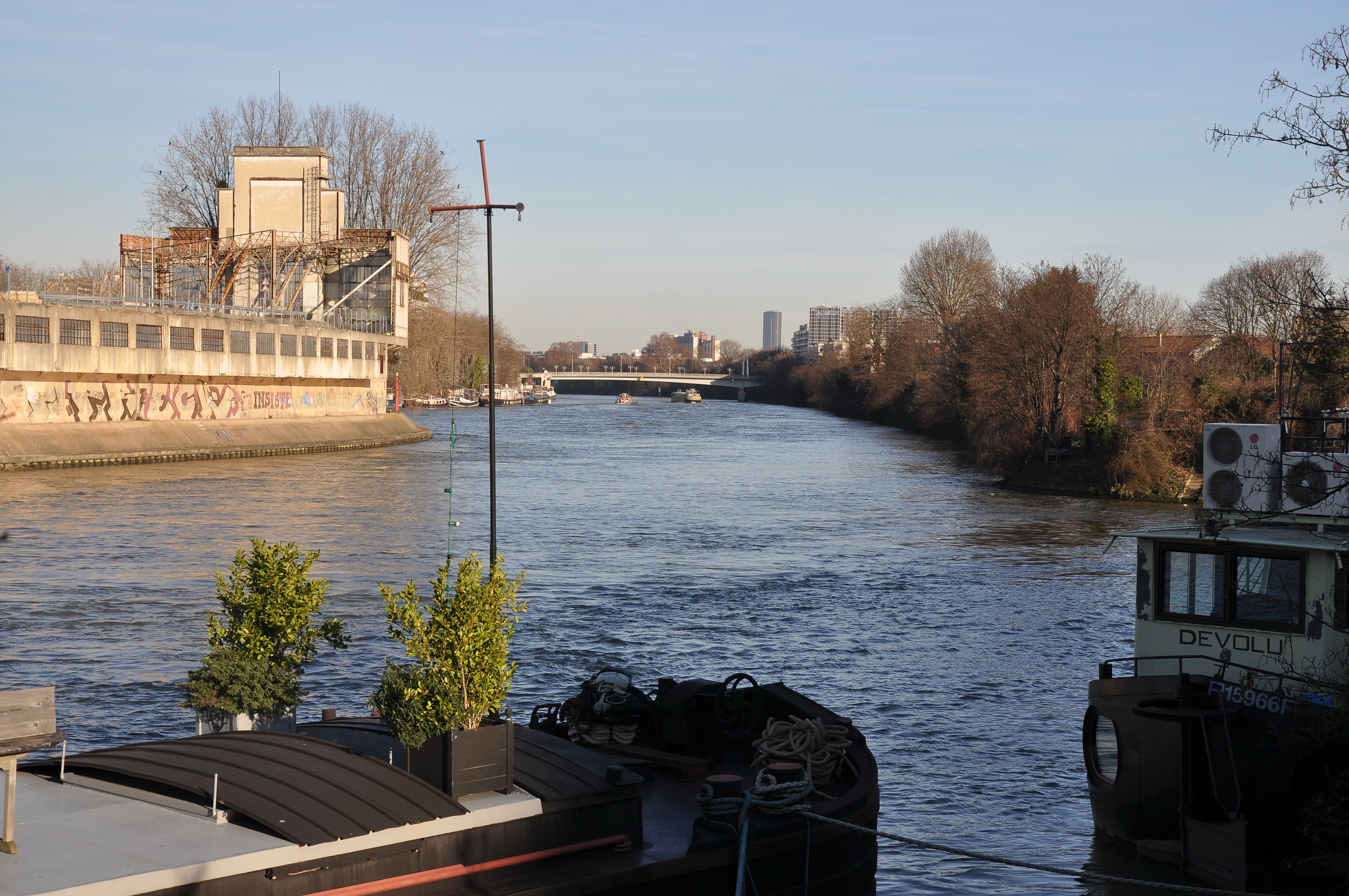 Pont de Billancourt over the big branch of Seine River between Boulogne-Billancourt and Issy-les-Moulineaux in Hauts-de-Seine, France. On the left side the demolished buildings of the former Renault factories on the Île Seguin. On the right Île Saint-Germain.